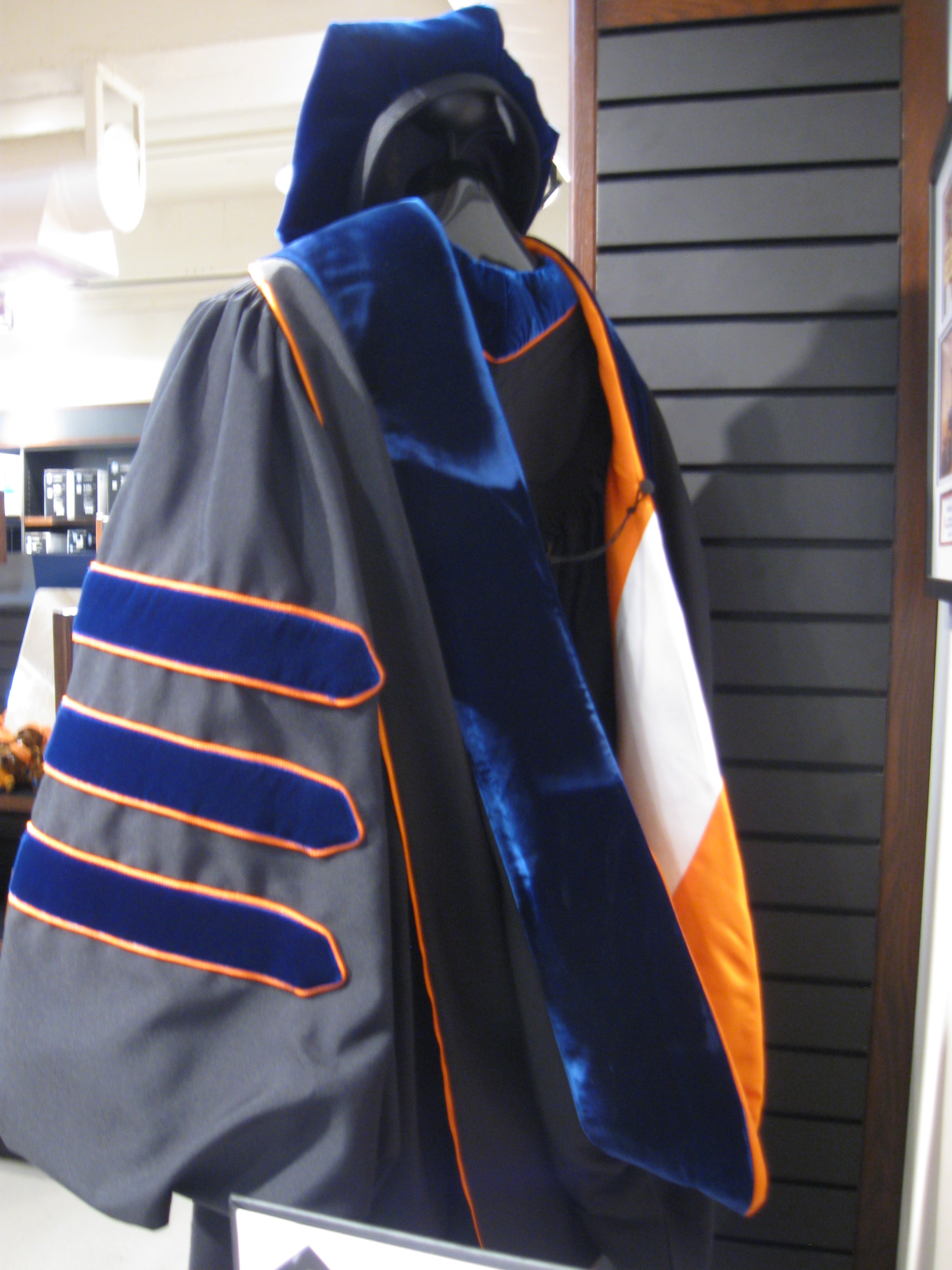 Doctoral regalia of the California Institute of Technology